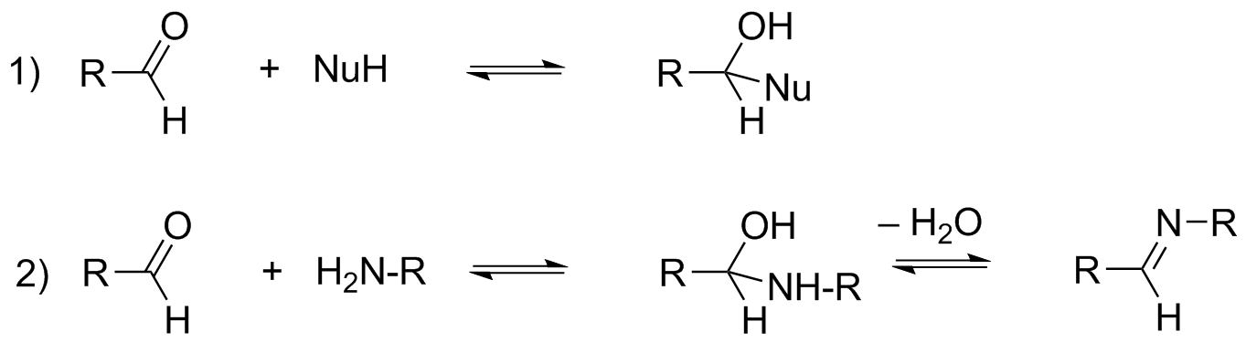 Nucleophilic addition to aldehydes